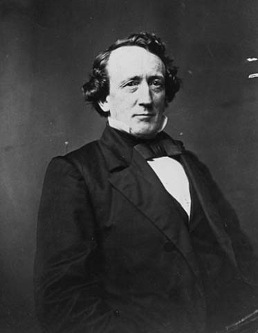 Black-and-white photographic portrait of Minnesota Senator Henry Mower Rice by photographer Mathew Brady. Courtesy of the Minnesota Historical Society.